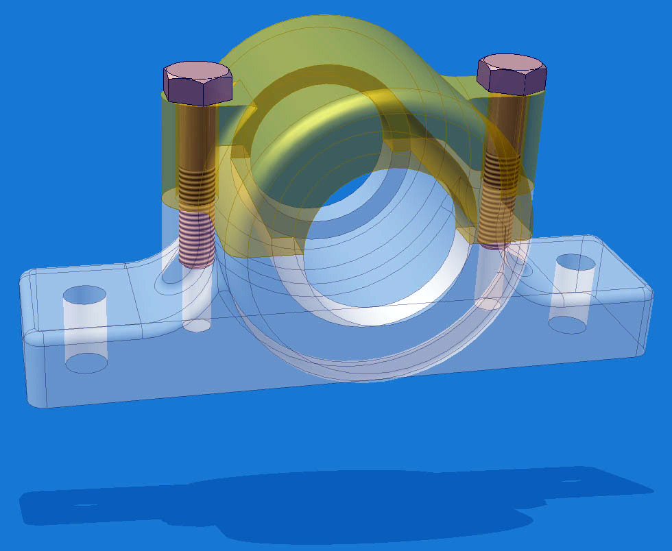 Autodesk Inventor sample.